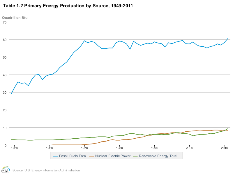 Total energy consumption in the US by source, comparing fossil fuels with nuclear and renewable energy.